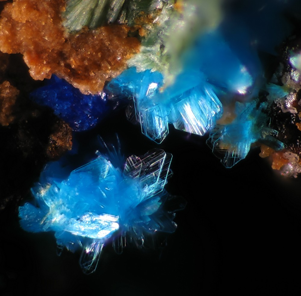 Lavendulan Locality: Dolores prospect, Pastrana, Mazarrón-Águilas, Murcia, Spain (Locality at ) Picture width 1.5 mm. Collection and photograph Christian Rewitzer This Photo was Photo of the Day - 8th Jan 2008